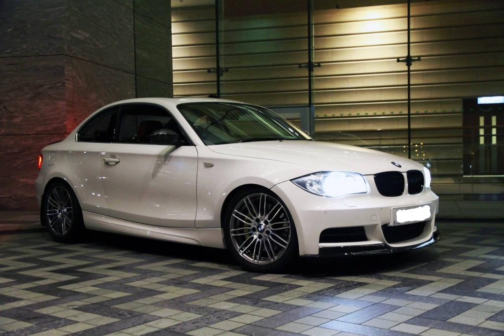 BMW 135i in Alpine White with BMW Performance upgrades night shot